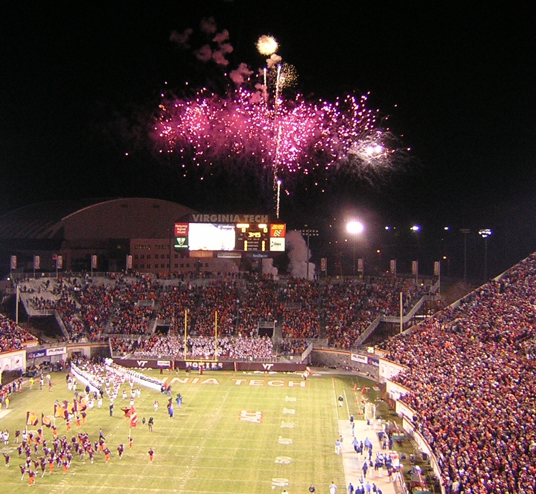 The 2005 Virginia Tech Hokies football team enters Lane Stadium (en) to face the University of North Carolina at Chapel Hill. By winning this game, Virginia Tech would clench the ACC Coastal Division title.